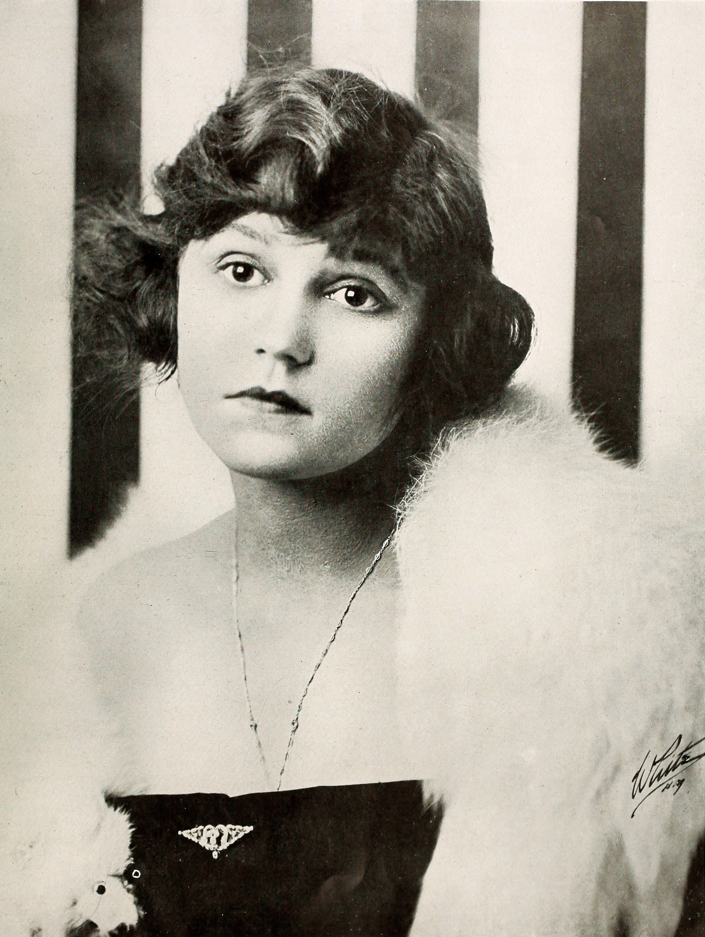 Alice Brady. Photo-Play Journal, October 1916